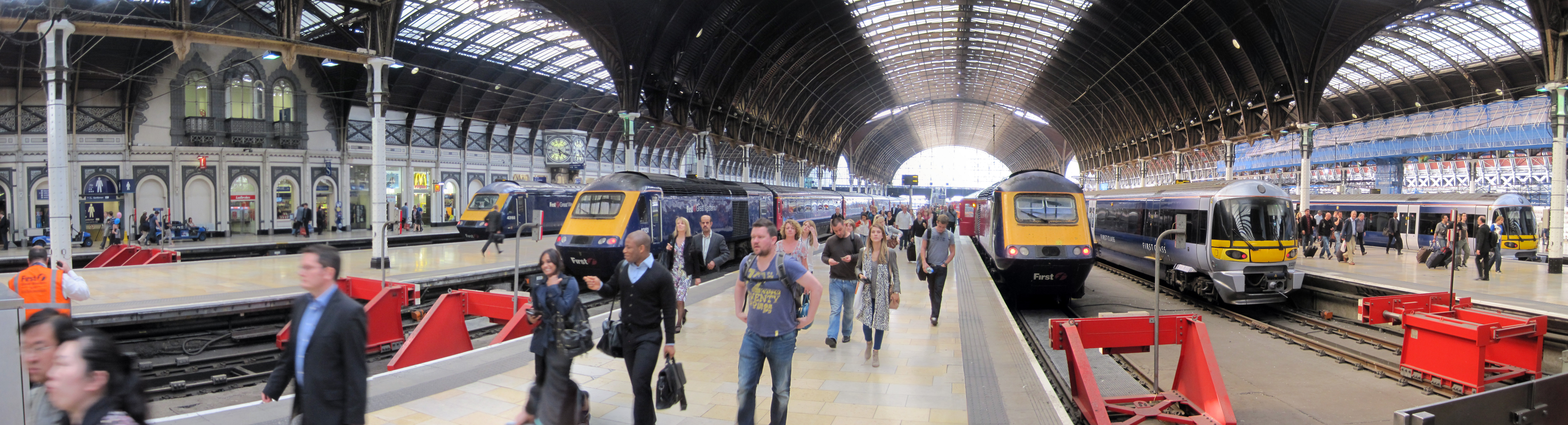 The main platforms of the Paddington rail station in London, UK